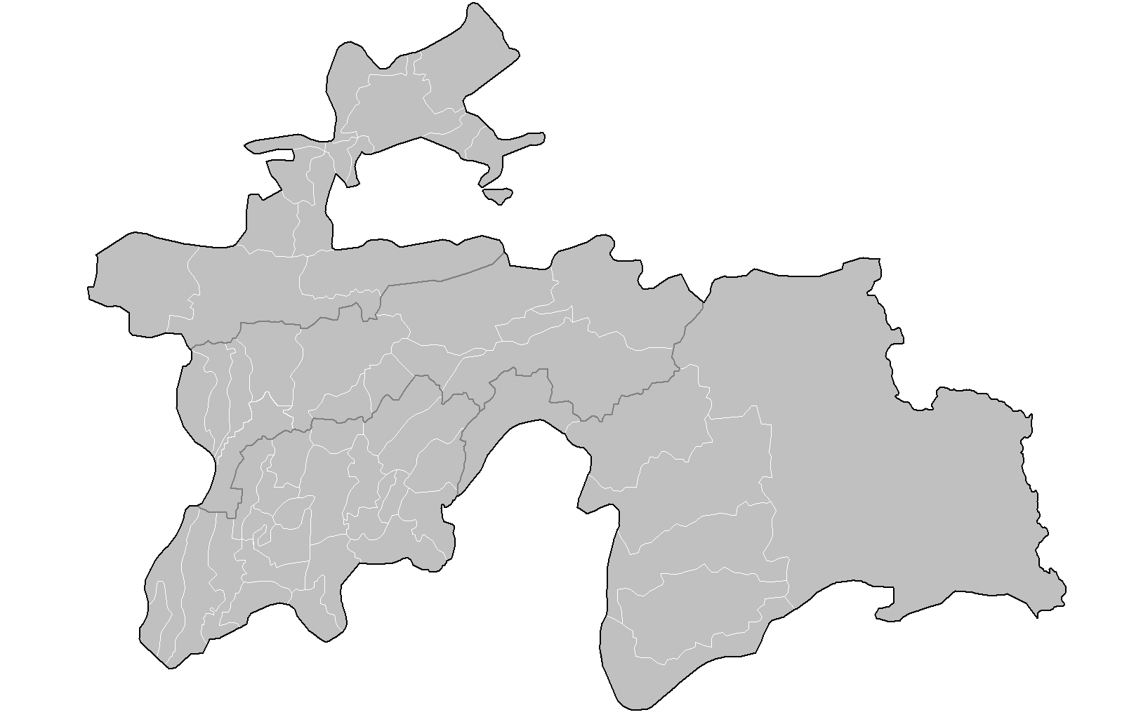 Map of the raions of Tajikistan. Created by Rarelibra 19:57, 6 August 2007 (UTC) for public domain use, using MapInfo Professional v8.5 and various mapping resources.